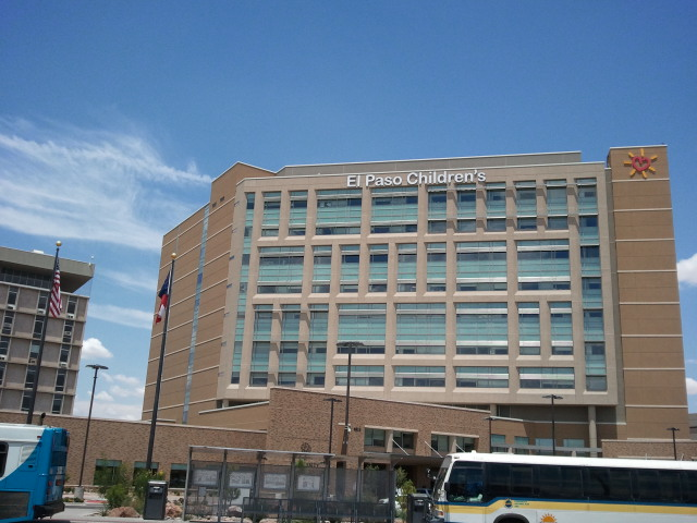 El Paso Children's Hospital